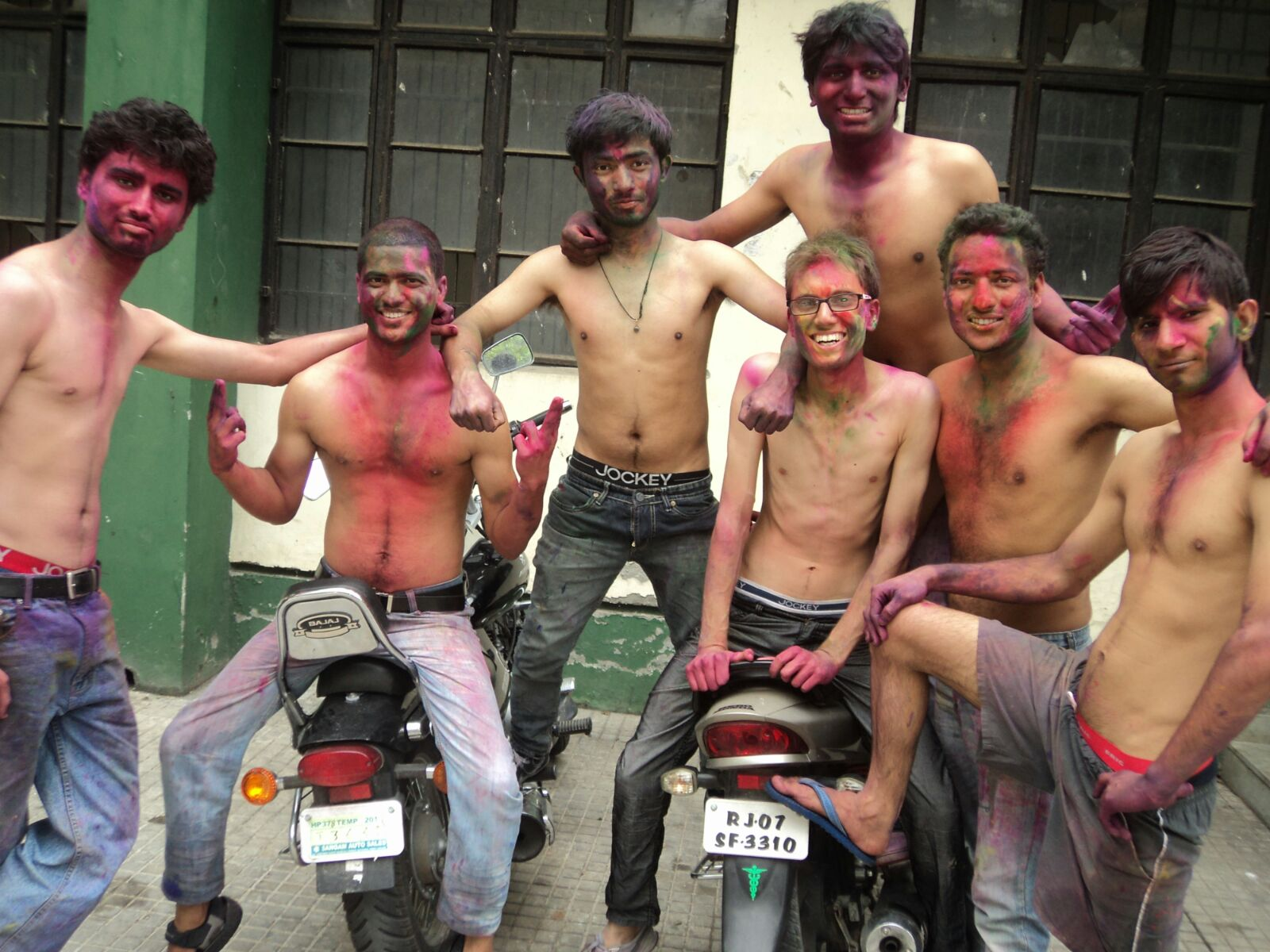 Bunch of students from Dr. RPGMC Tanda posing after Holi celebrations